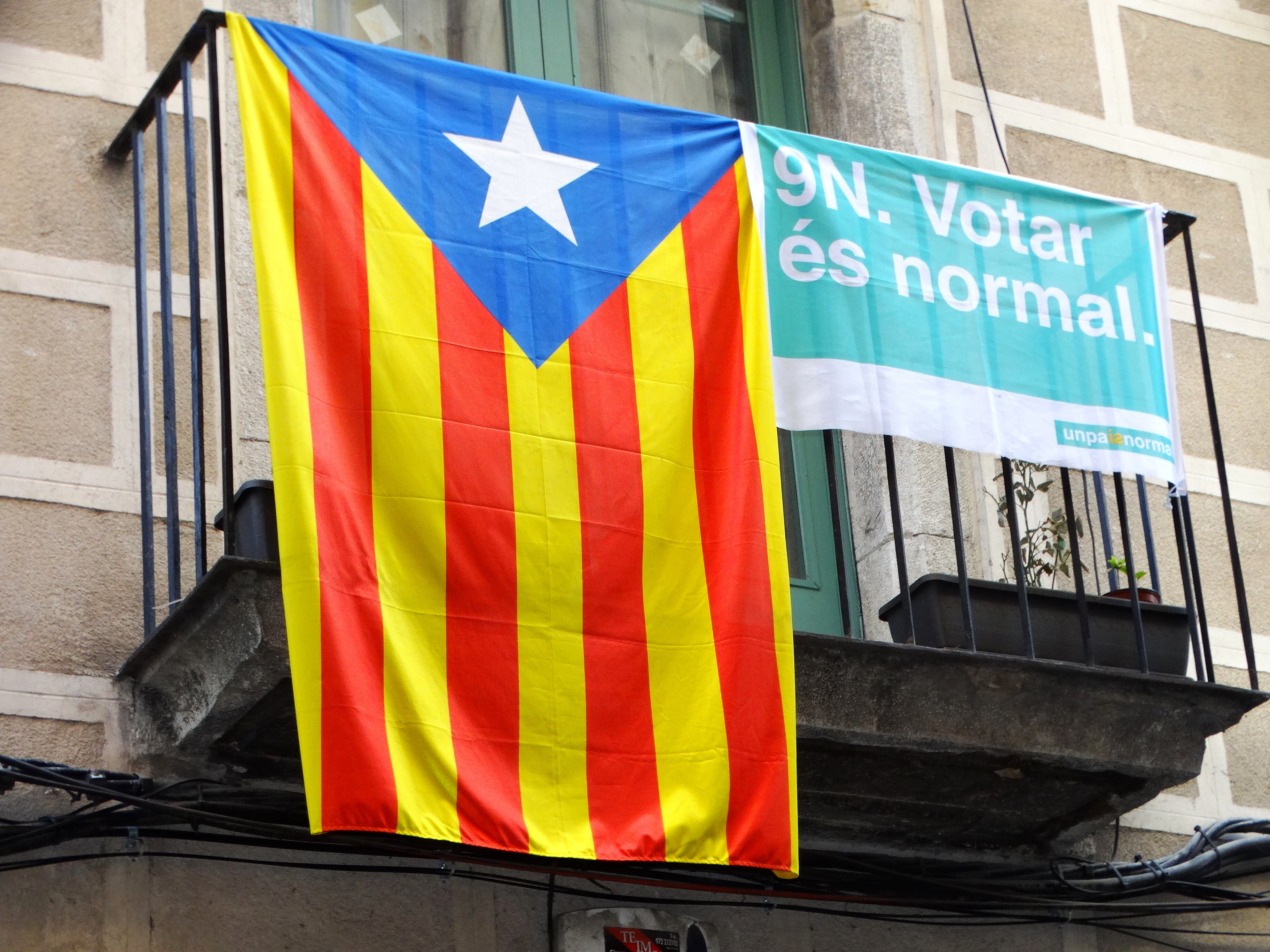 Pro-Independence Catalan Flag and Referendum Poster - Girona - Catalunya - Spain